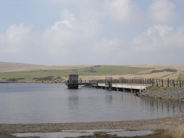 Aled Isaf reservoir High on the Denbigh moors one of several reservoirs in the area